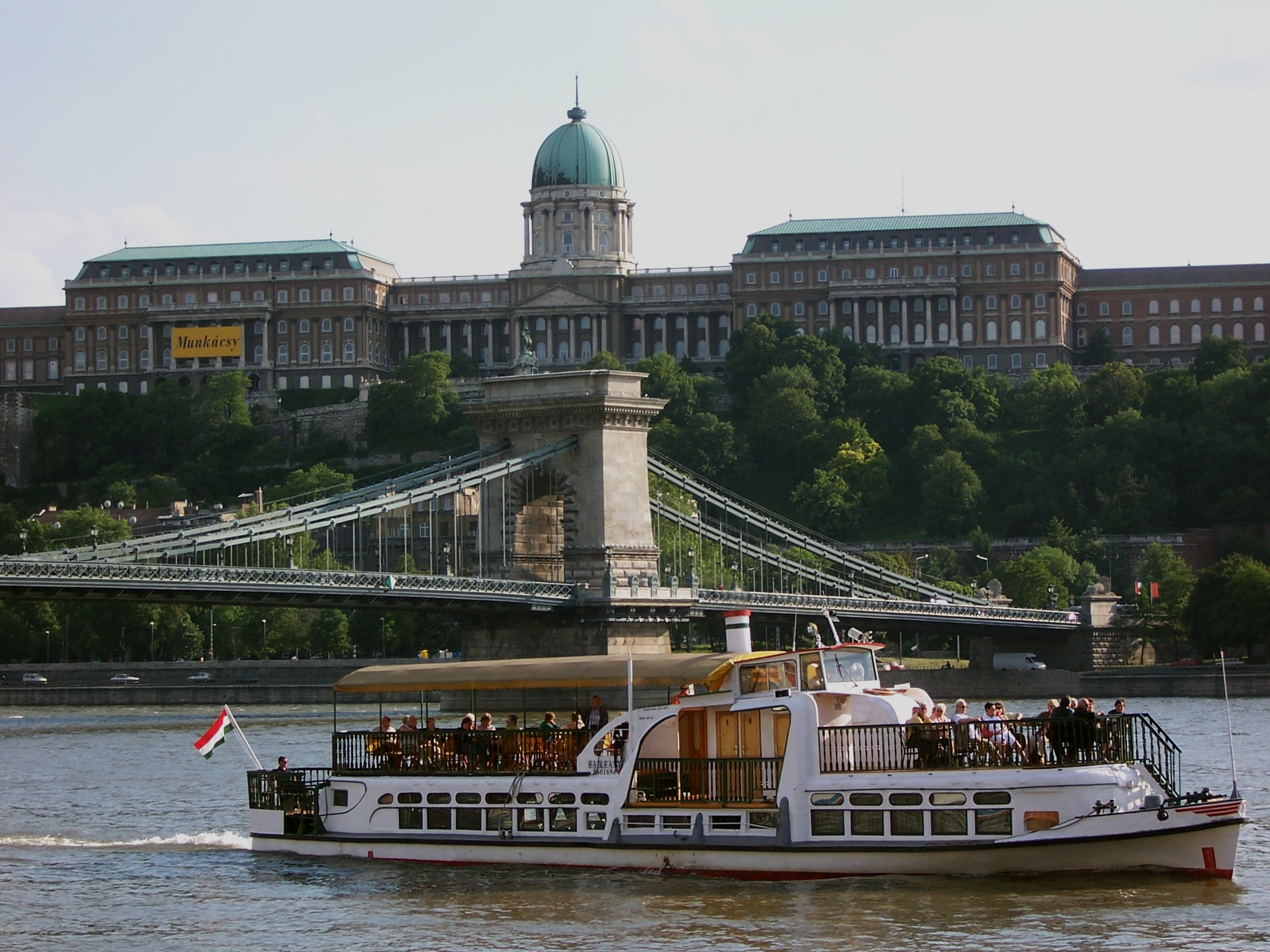 Budapest Castle with 'Hableány' ship